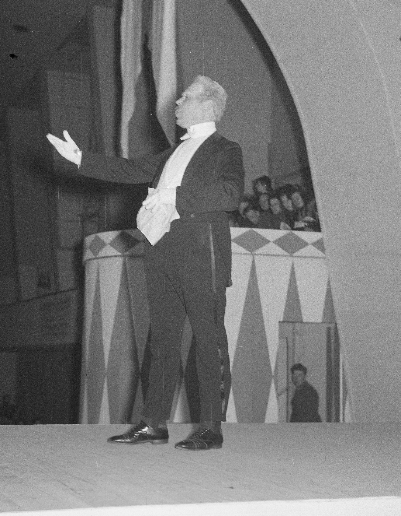 Photograph of the Finnish actor Matti Aro (1906–1991) performing at a wartime evening matinée.